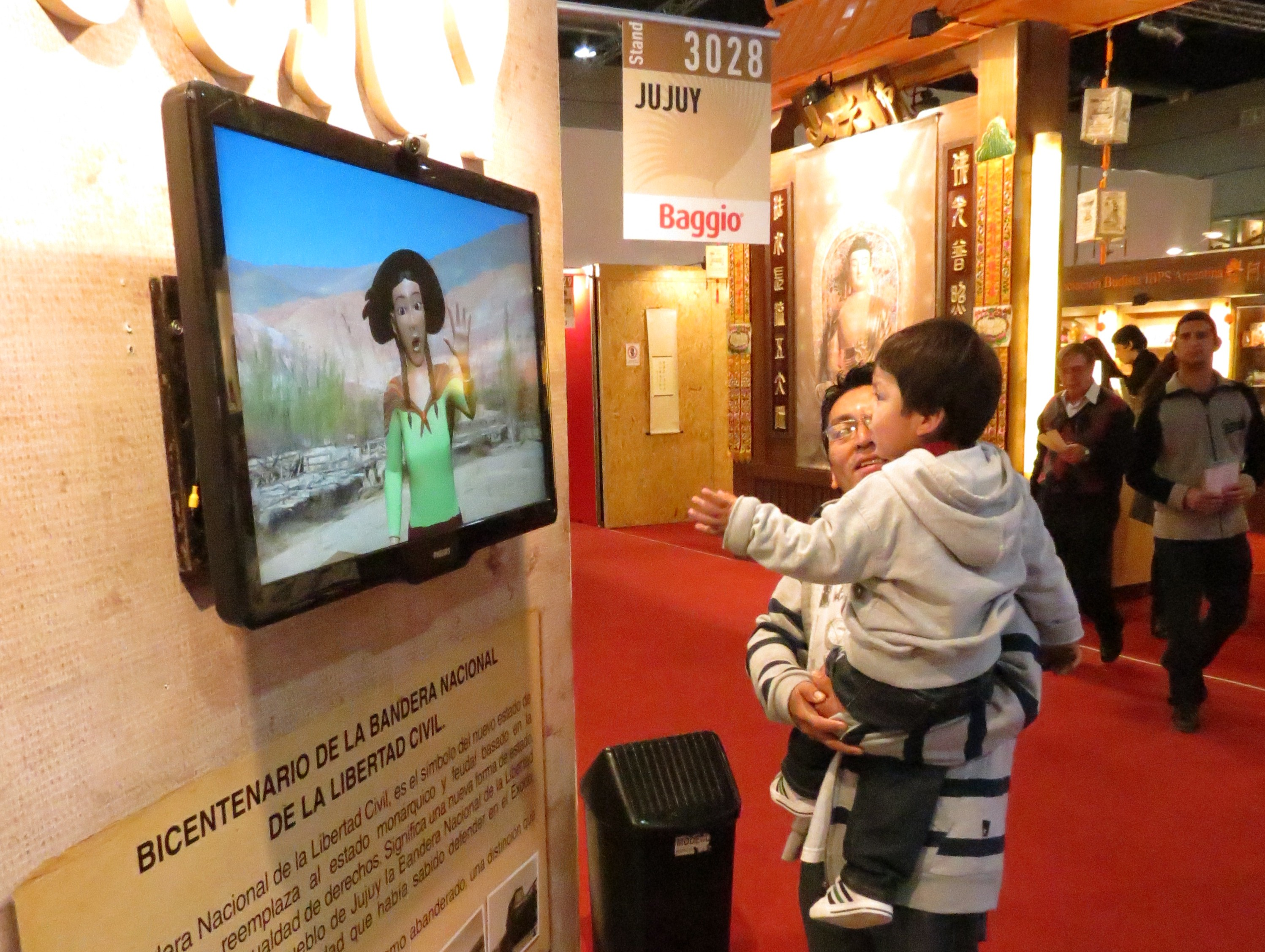 Juana, a Digital Puppet created by Mario Mey, at the 25º Book Fair, Argentina, 2013.